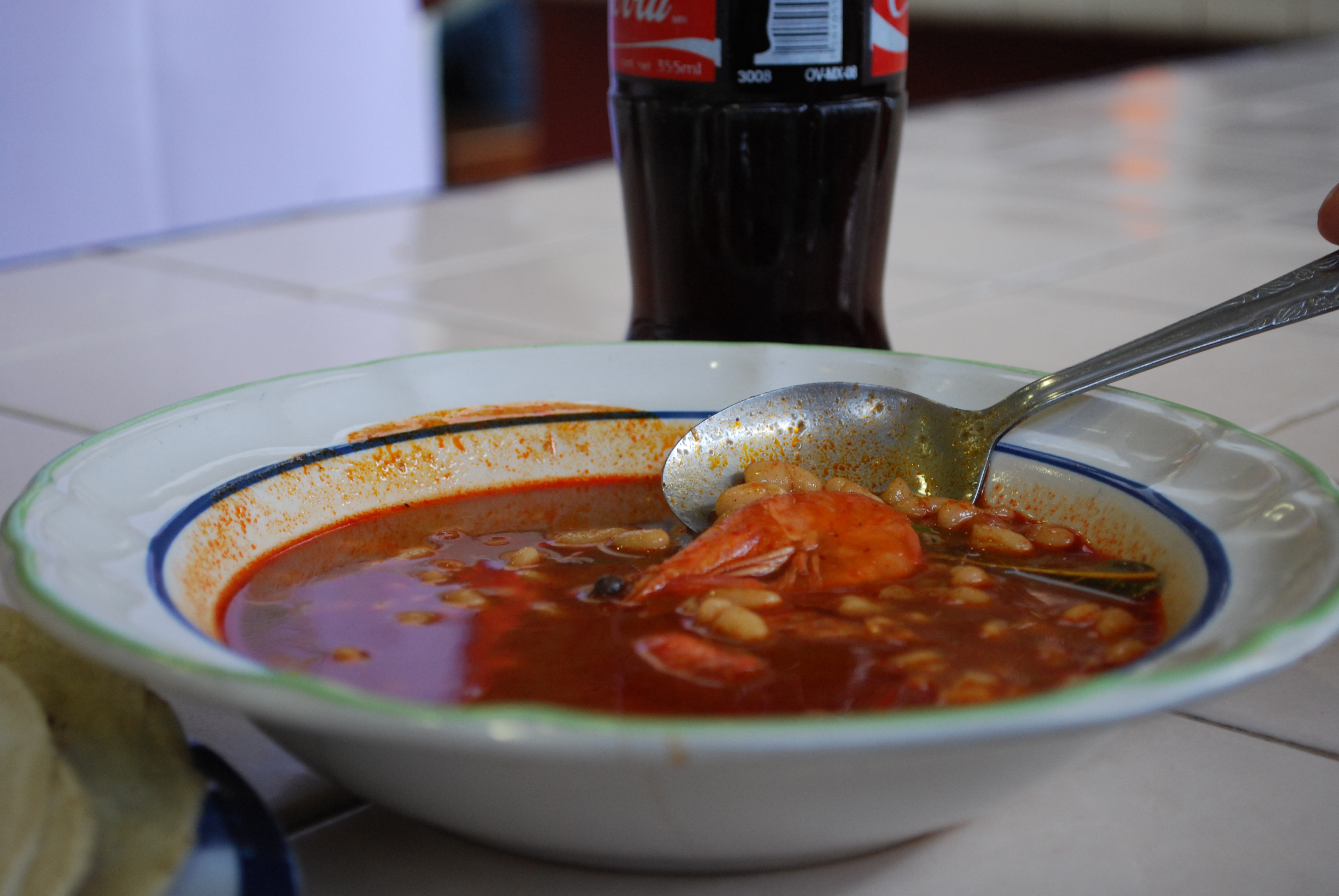 White beans and shrimp in mole coloradito at the 20 de Noviembre market in Oaxaca city, Oaxaca, Mexico